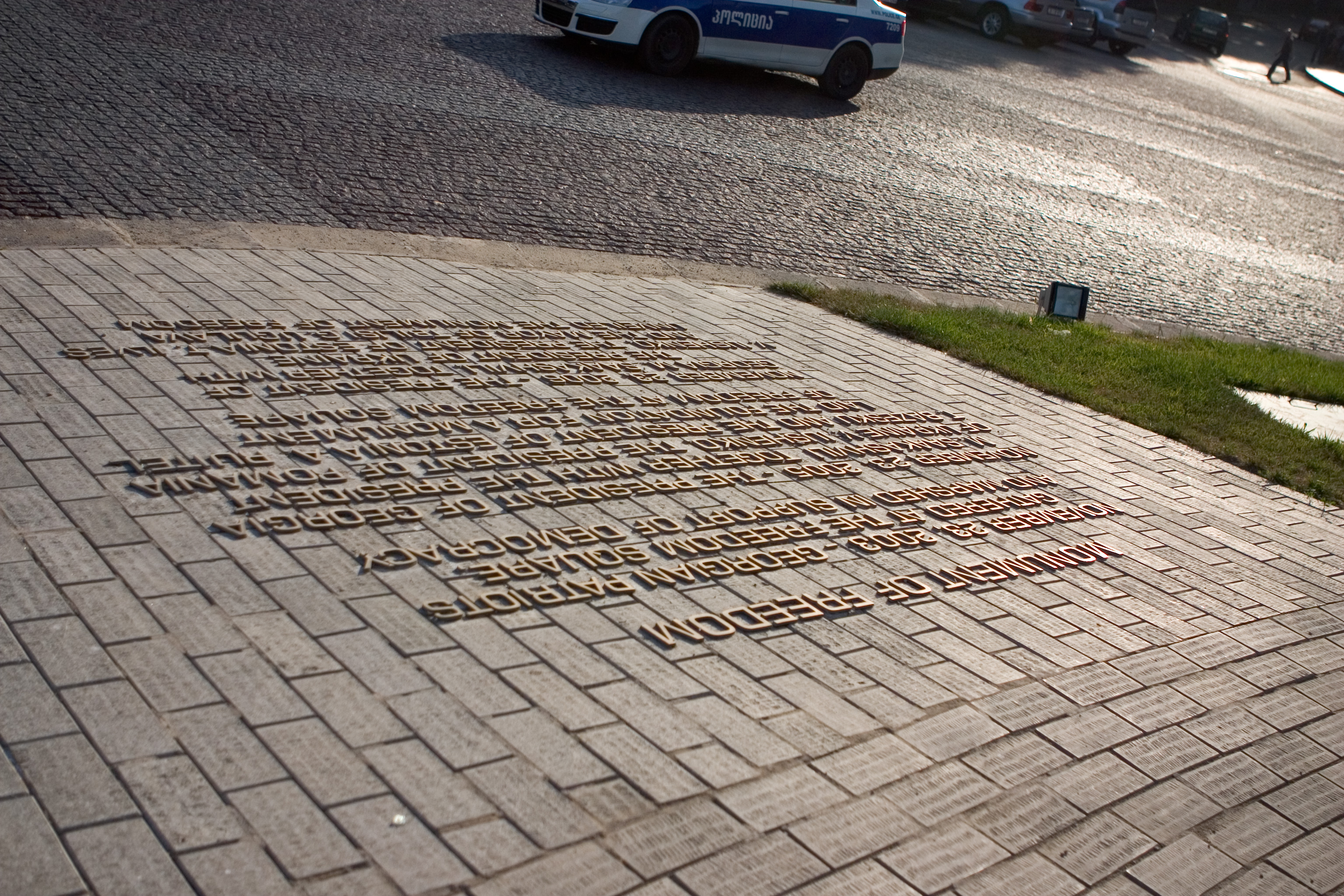 Monument of Freedom, Tbilisi, Georgia